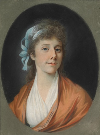 Frederikke Vilhelmine Bille (1771–1851), wife of Steen Andersen Bille (1751–1833)